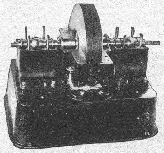 Fig. 7. "The Wonderful "Tesla" Steam Turbine; the Steam Flows Radially Up Between the Vanes, Not Against Them."